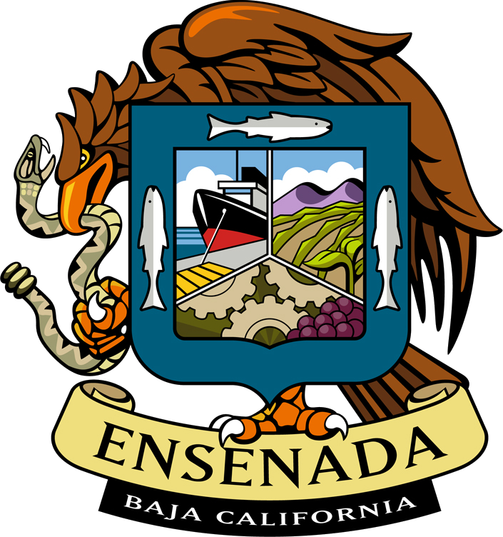 Coat of arms of Ensenada, Baja California